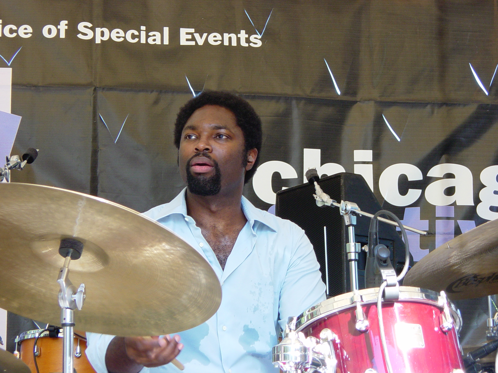 Dana Hall in performance with his quintet at the Chicago Jazz Festival